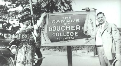 An image of William Westley Guth, president of Goucher College, shortly after the school's purchase of 421 acres in Towson for its new campus